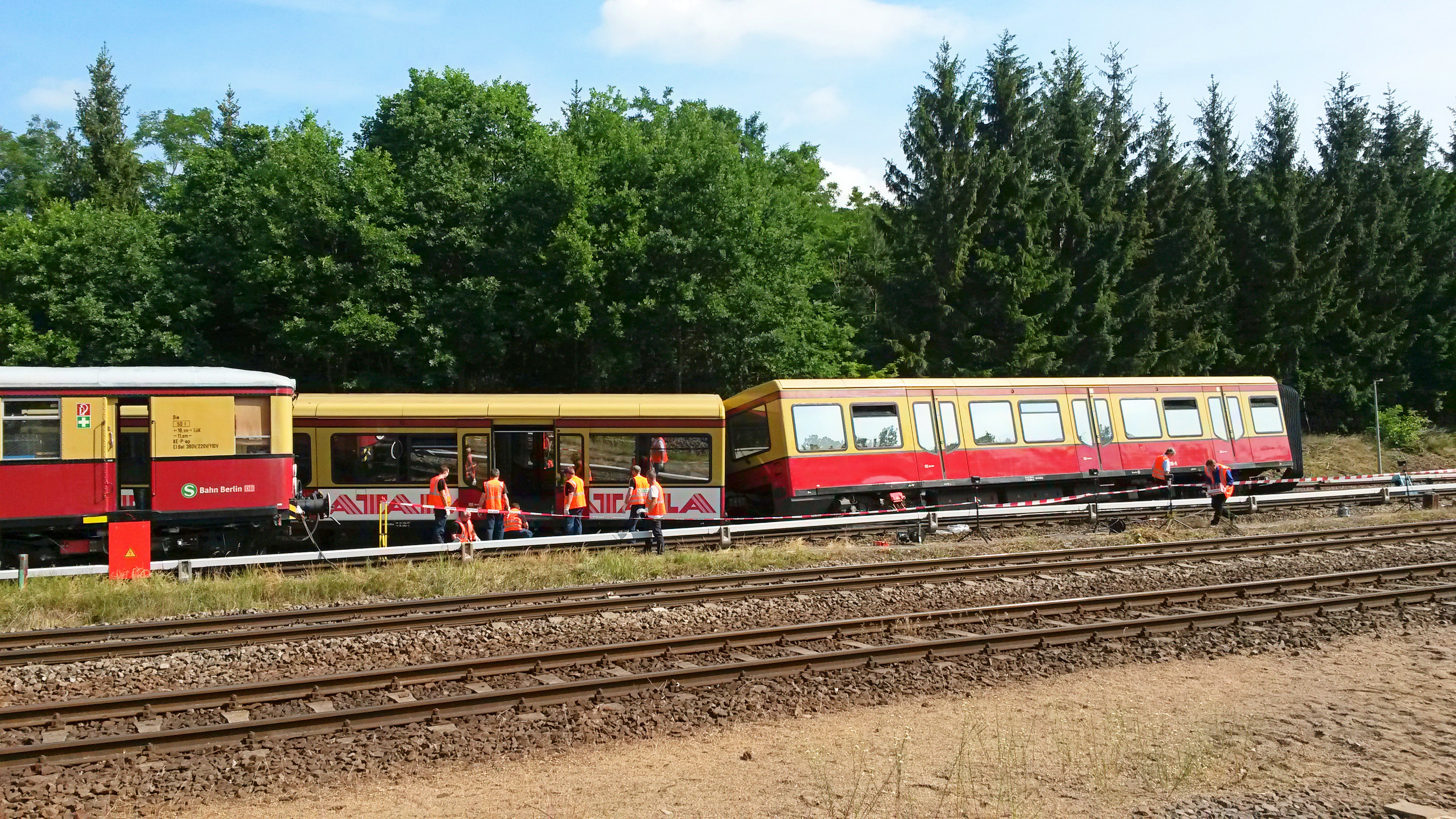 Derailment of a train of the Berlin S-Bahn just before the entrance to the station Hoppegarten (Mark) on 29 June 2015